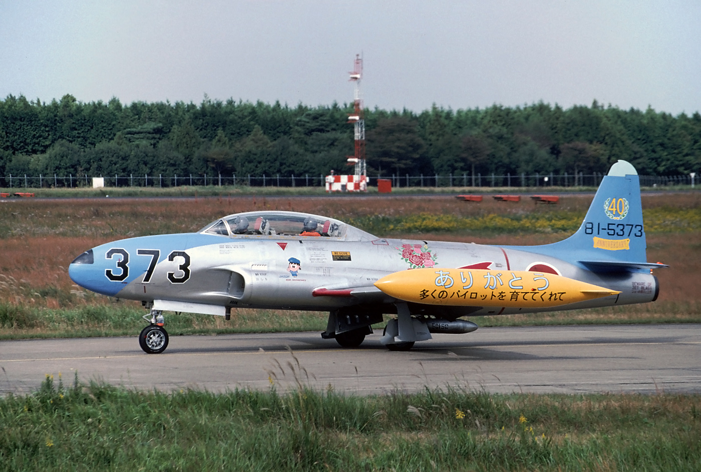 A T-33 of reconnaissance squadron 501 at Hyakuri. The special colours were for the last flight of this type. On the other side of the plane the texts were in English. They read: 'Thanks for bringing up the many pilots'.